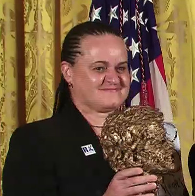 Jenni Williams of WOZA receiving Kennedy award from Obama in 2009